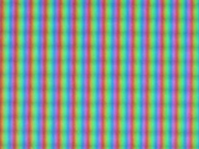 A light beam from pixels! I took the picture in front of the computer and cropped it, resulting the beam.